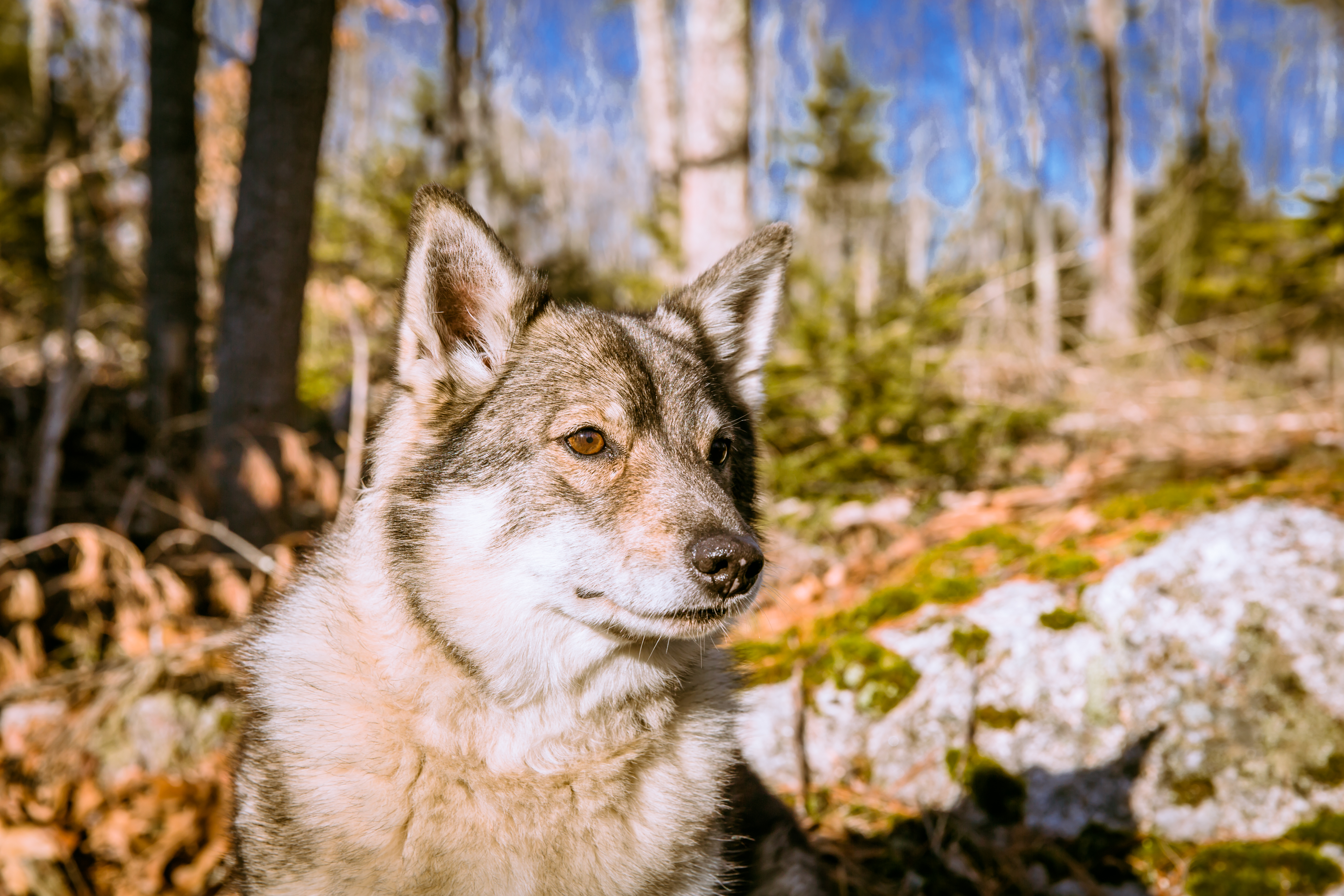 Swedish Vallhund